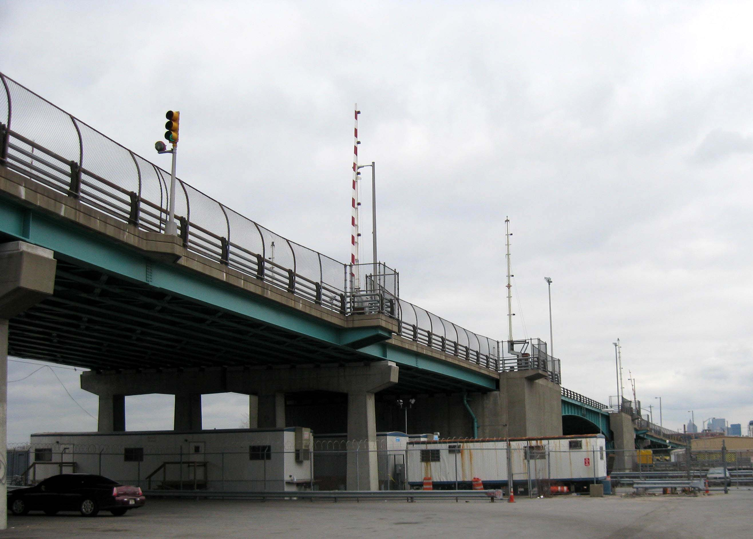 I stood on the right bank looking southwest and up at the Greenpoint Avenue Bridge from the downstream side on a cloudy afternoon in early spring.